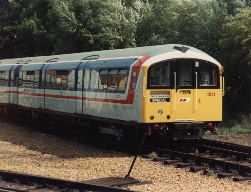 Isle of Wight unit 483 001 when "new" (to the island) in 1989.